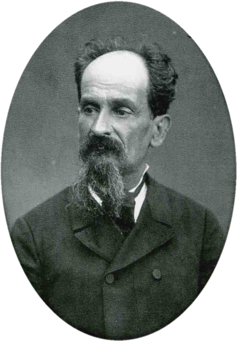 José Maria Nepomuceno (1836-1895), Portuguese architect.